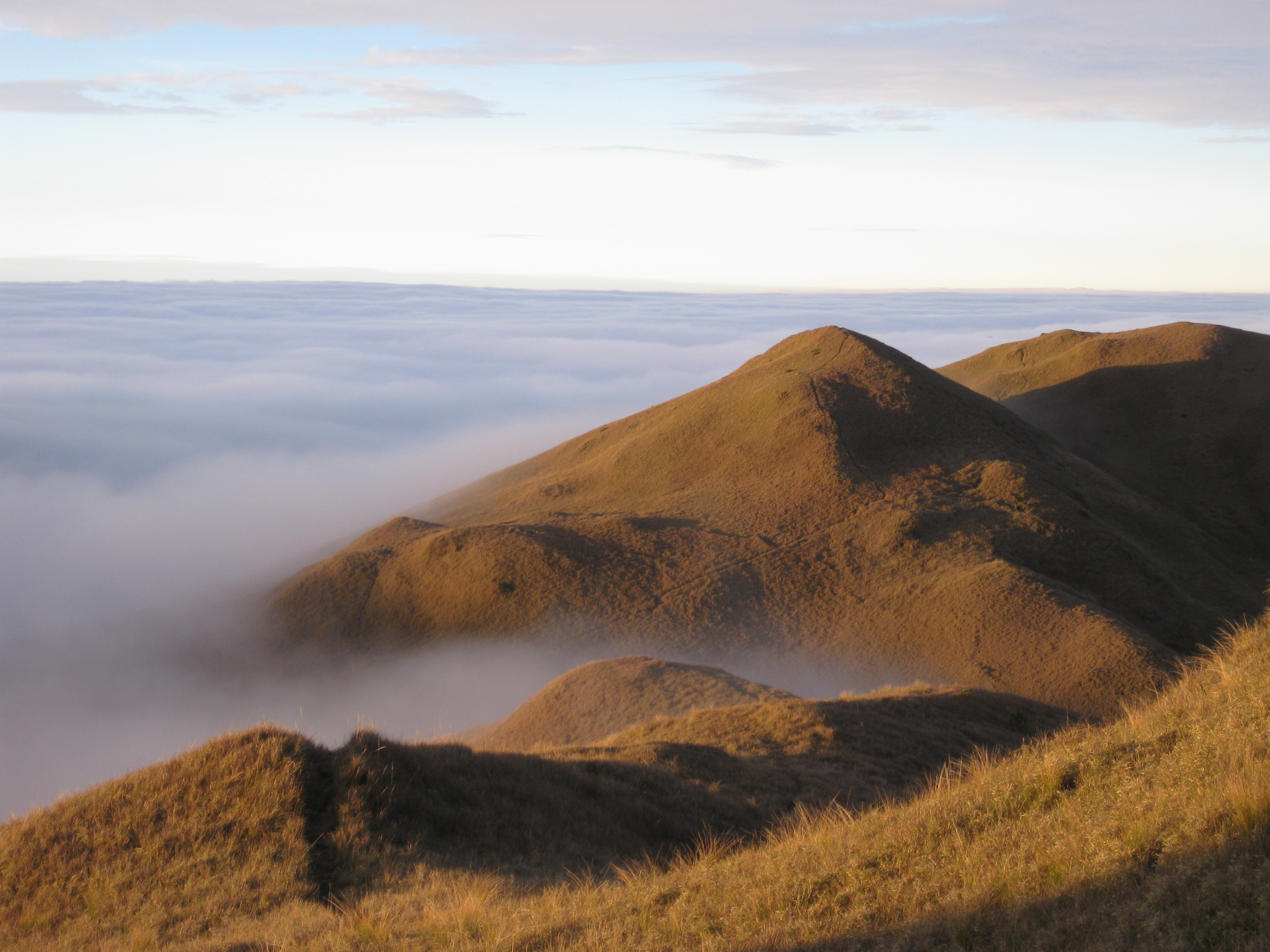 Afternoon clouds roll into the mountains on the way to Mt. Pulag's summit